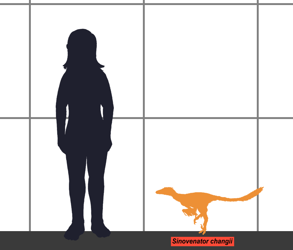 Size comparison between the troodontid dinosaur Sinovenator and a human. External links Sinovenator pieces.